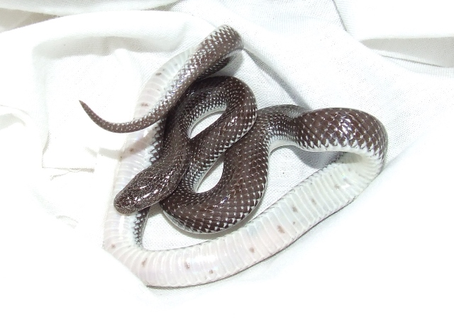 A Cape wolf snake, photographed near the CSIR buildings in Pretoria, South Africa.